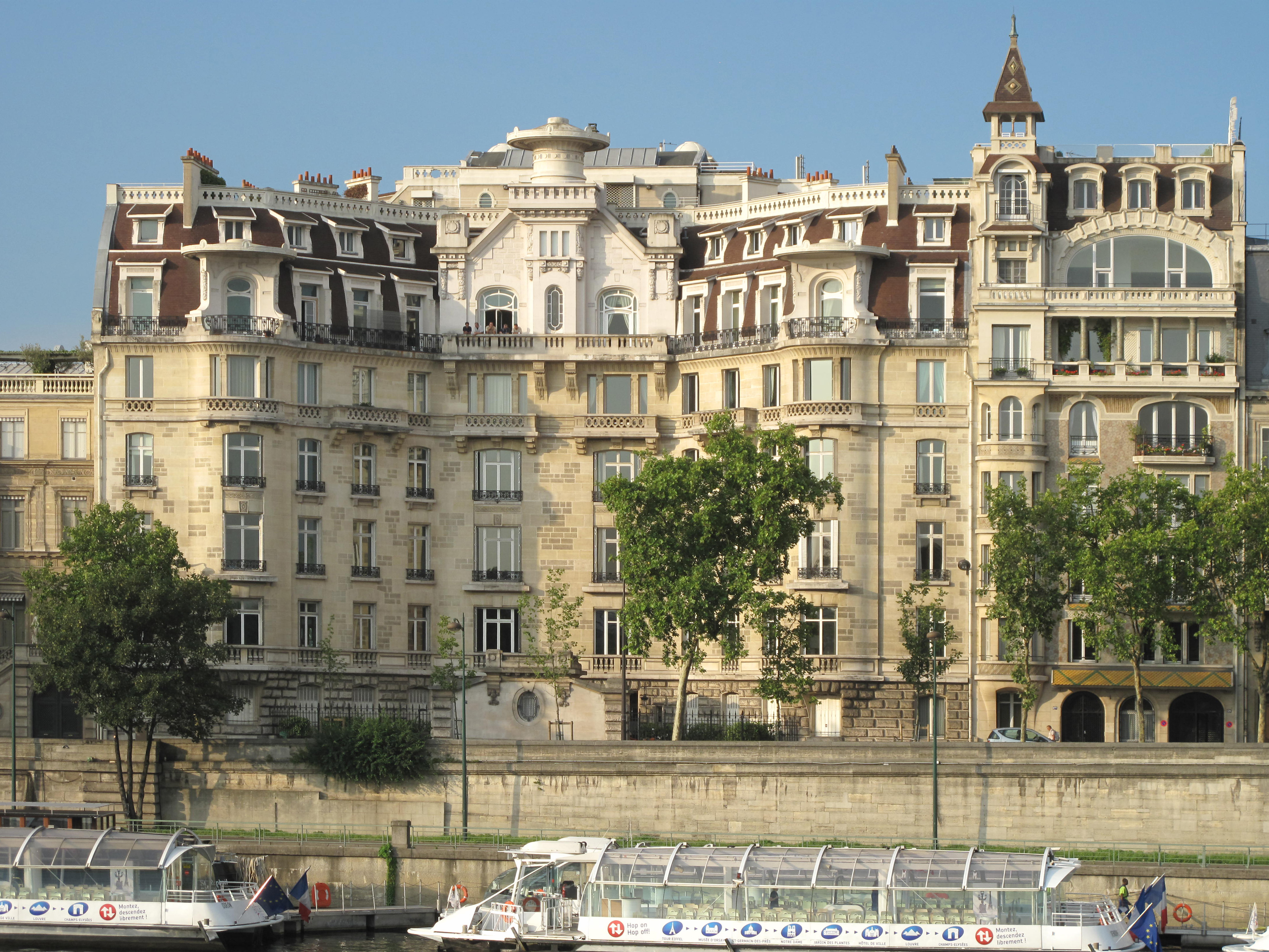 Building 27 quai Anatole France, Paris 7th arrond.